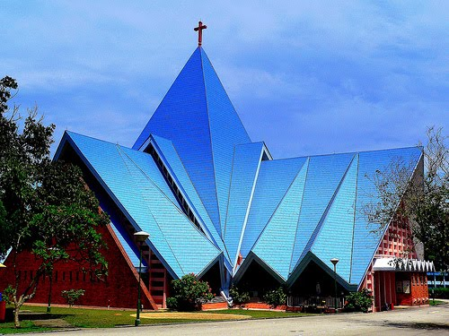 Church of the Blessed Sacrament